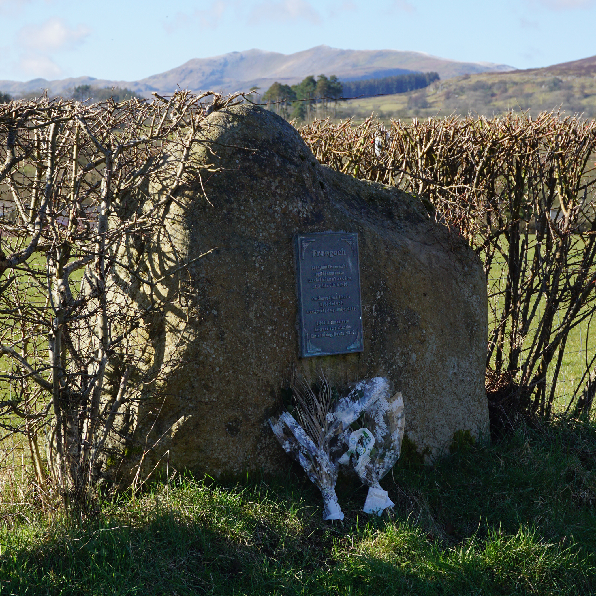 The Memorial stone and plaque at Frongoch, Wales to commemorate the site of the internment camp where 1,800 Irish prisoners where held following the 1916 Easter Rising. Inscriptions in Irish, Welsh and English.